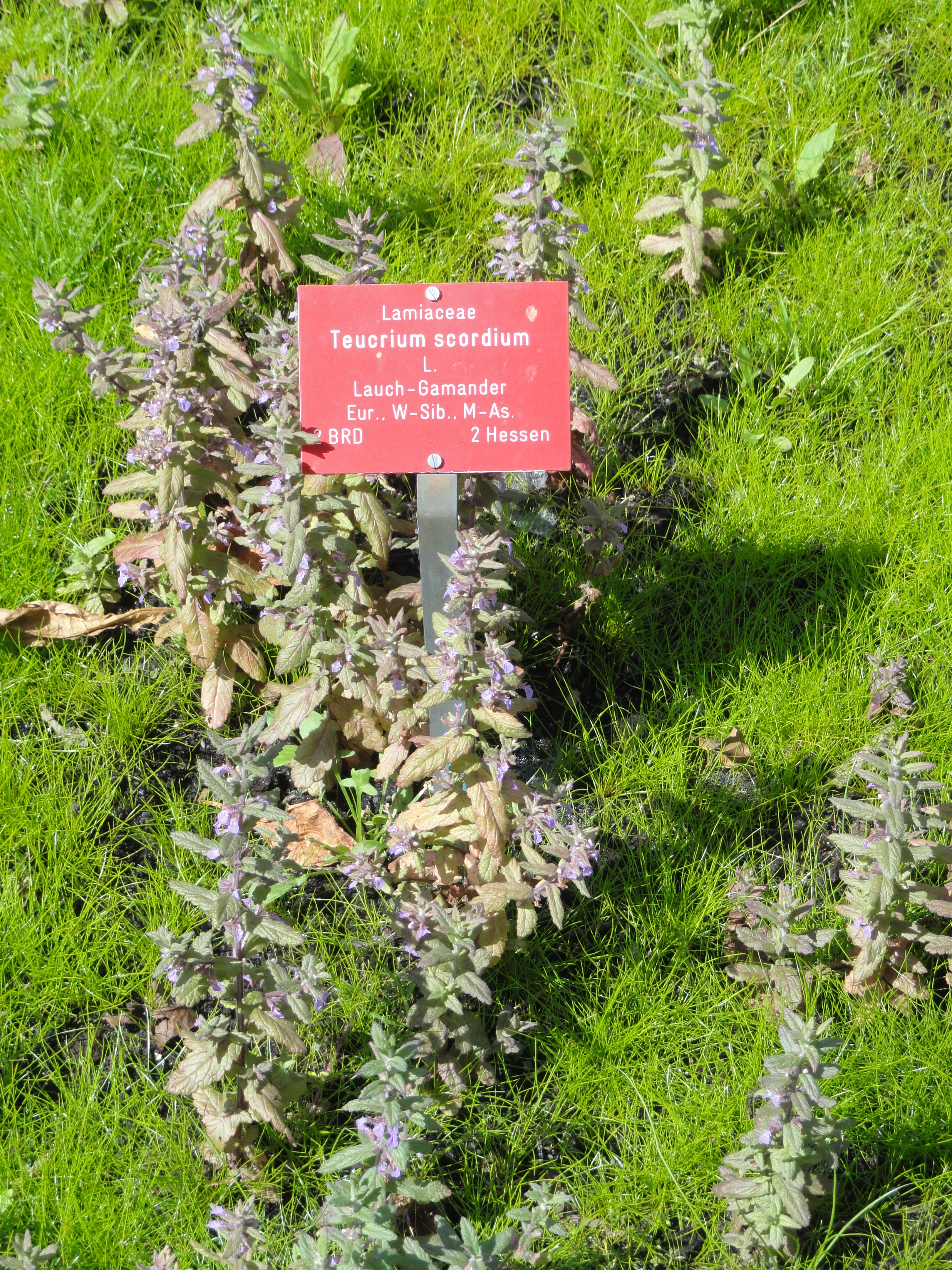 Botanical specimen in the Botanischer Garten, Frankfurt am Main, located at Siesmayerstraße 72, Frankfurt am Main, Germany.